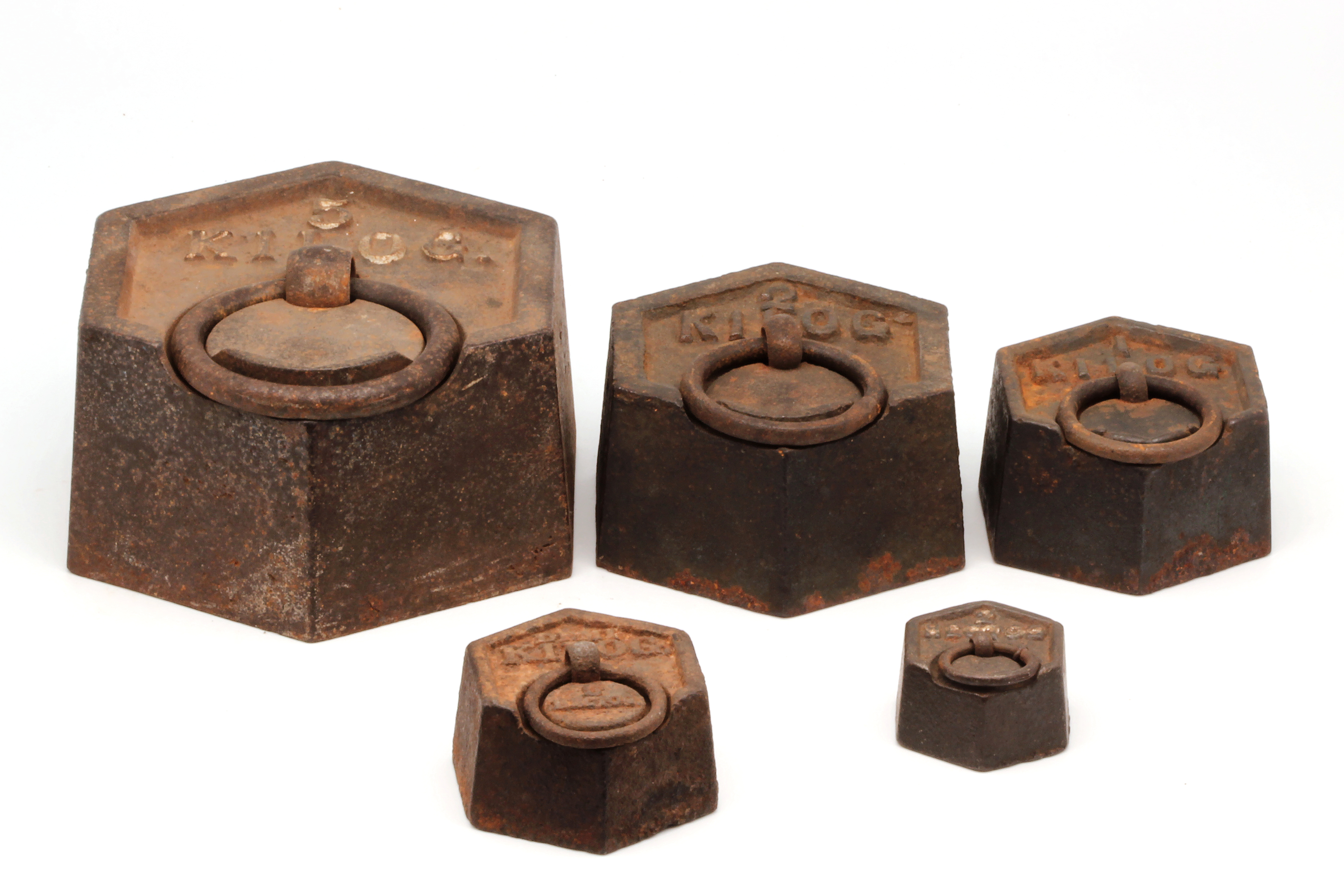 Weight for balances